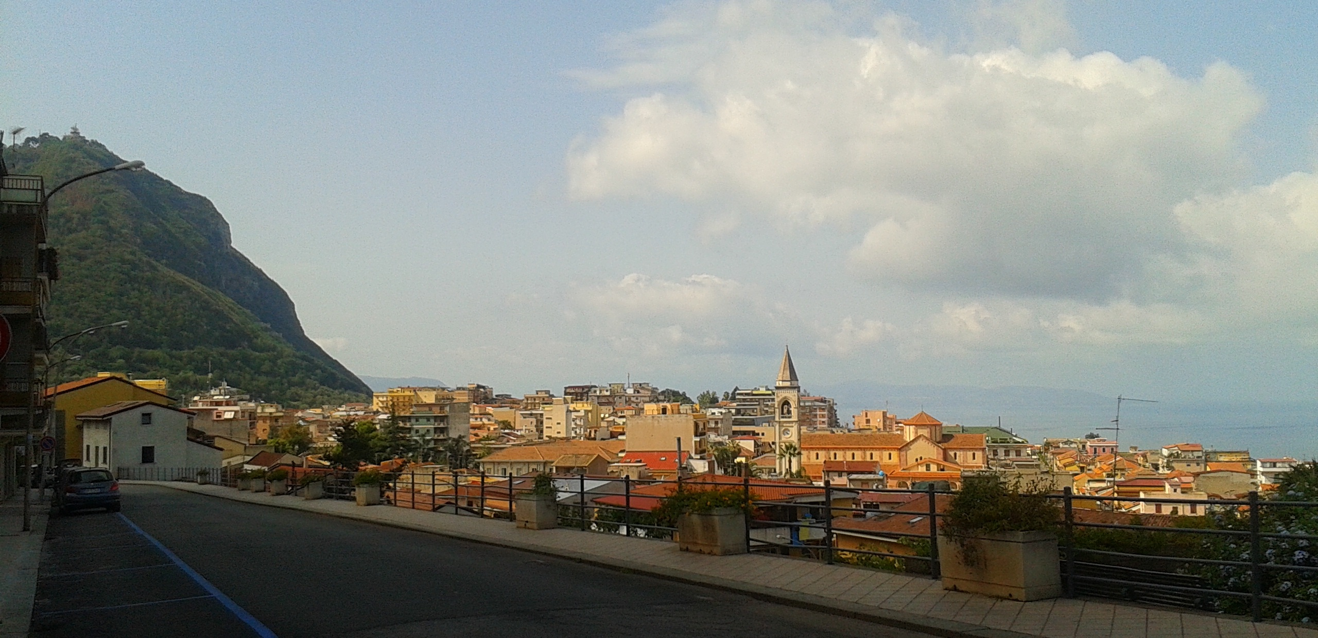 View of the old town of Palmi from the viewpoint Gi.Sa.